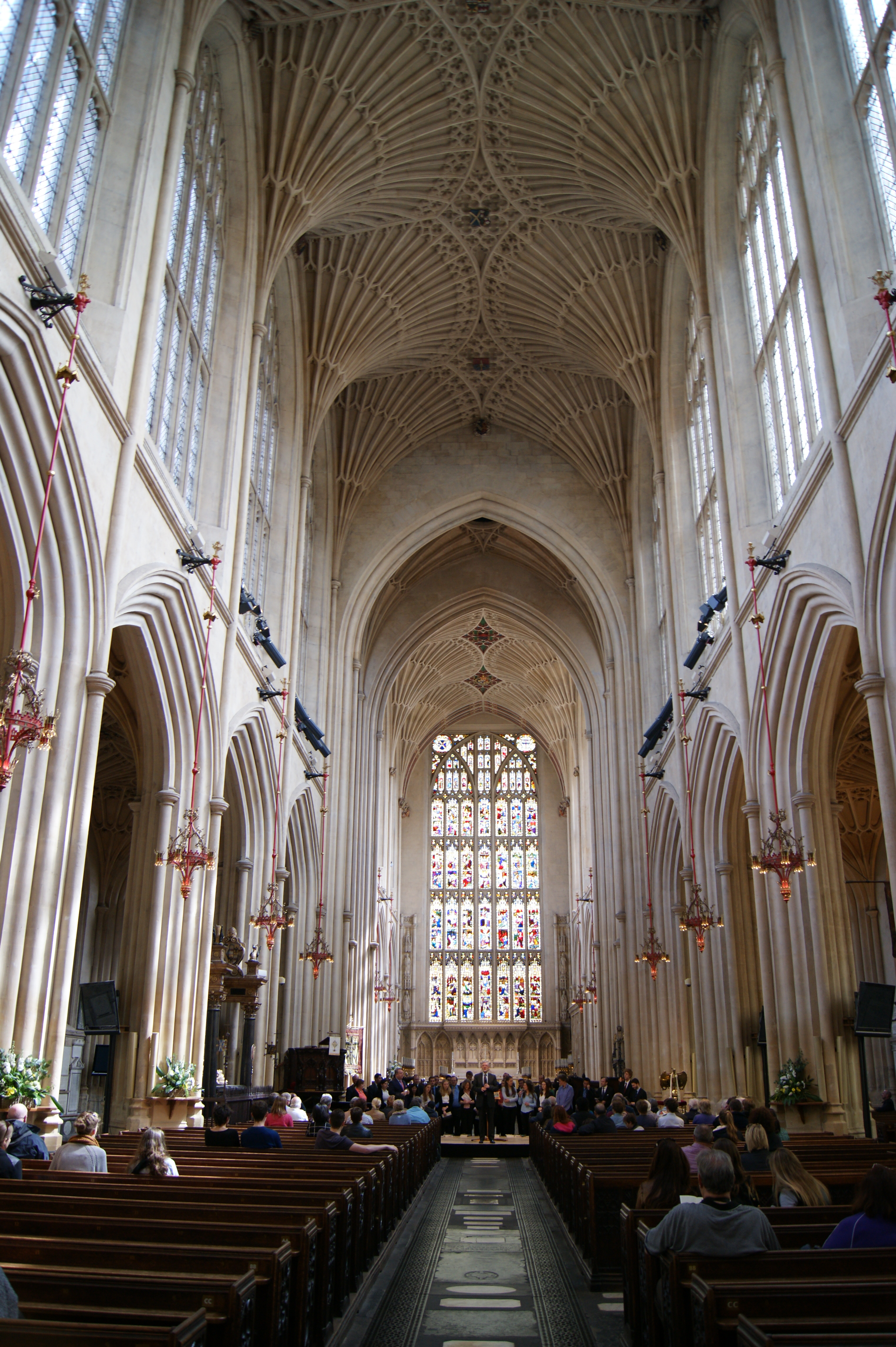 The early 16th Century Tudor Perpendicular nave of Bath Abbey (St. Peter & St. Paul), 4 May 2015. There are tall clerestories but no triforiums.